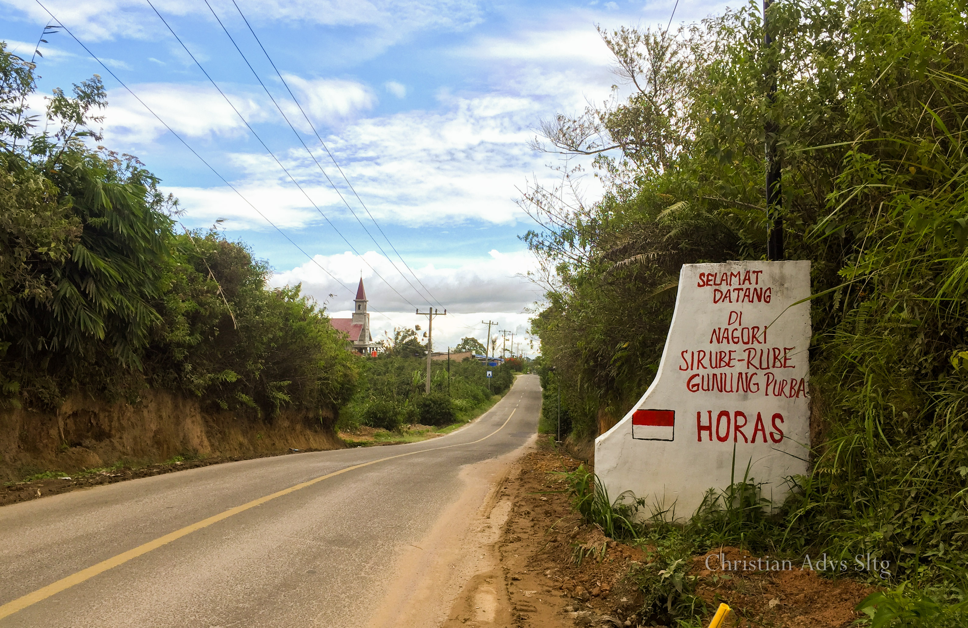 Welcome gate to Siruberube Gunung Purba, Dolok Pardamean, Simalungun